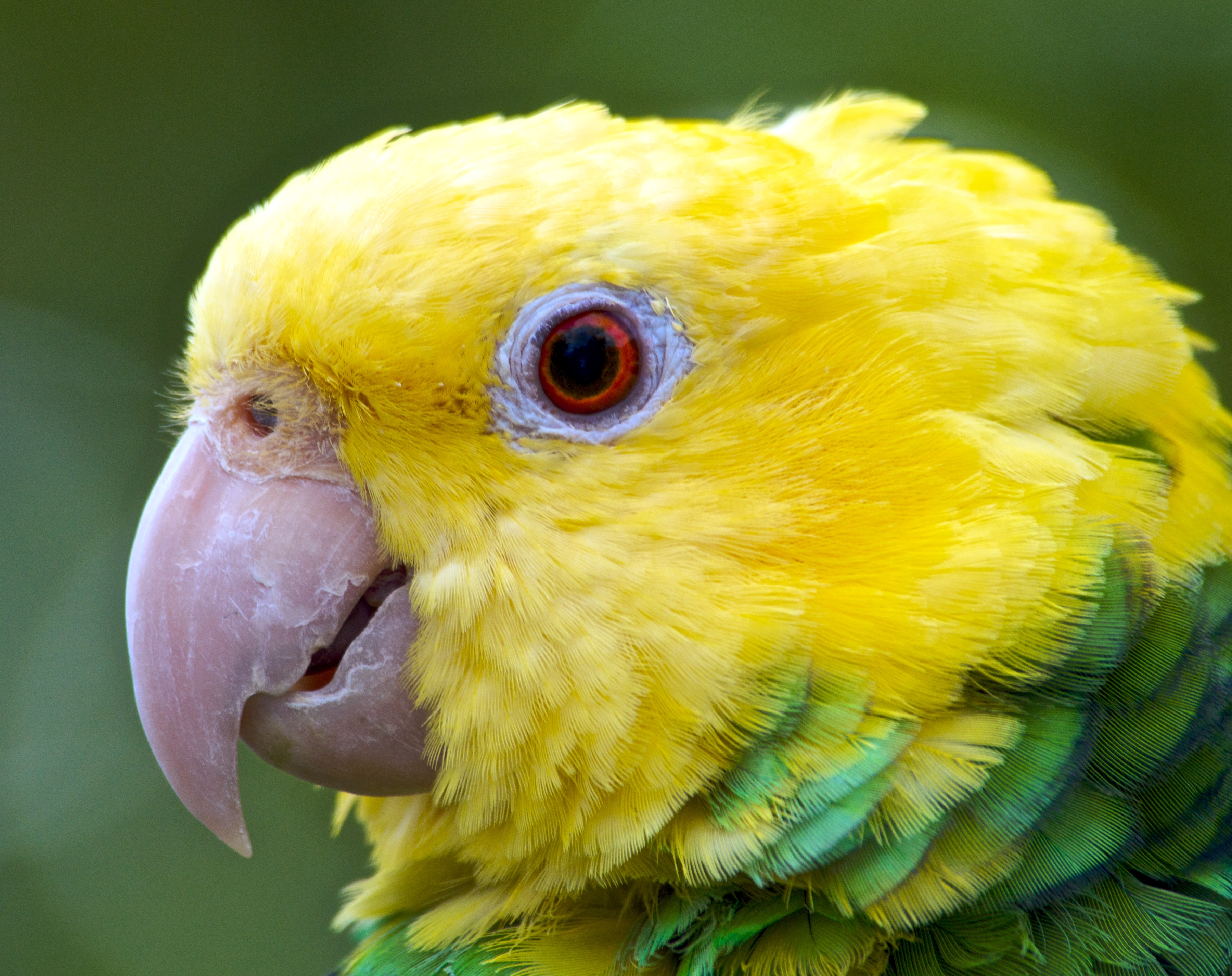 Yellow-headed Amazon, also known as the Yellow-headed Parrot or Double Yellow-headed Amazon, at Lion Country Safari, West Palm Beach, Florida, USA. Photograph is a close up of head.